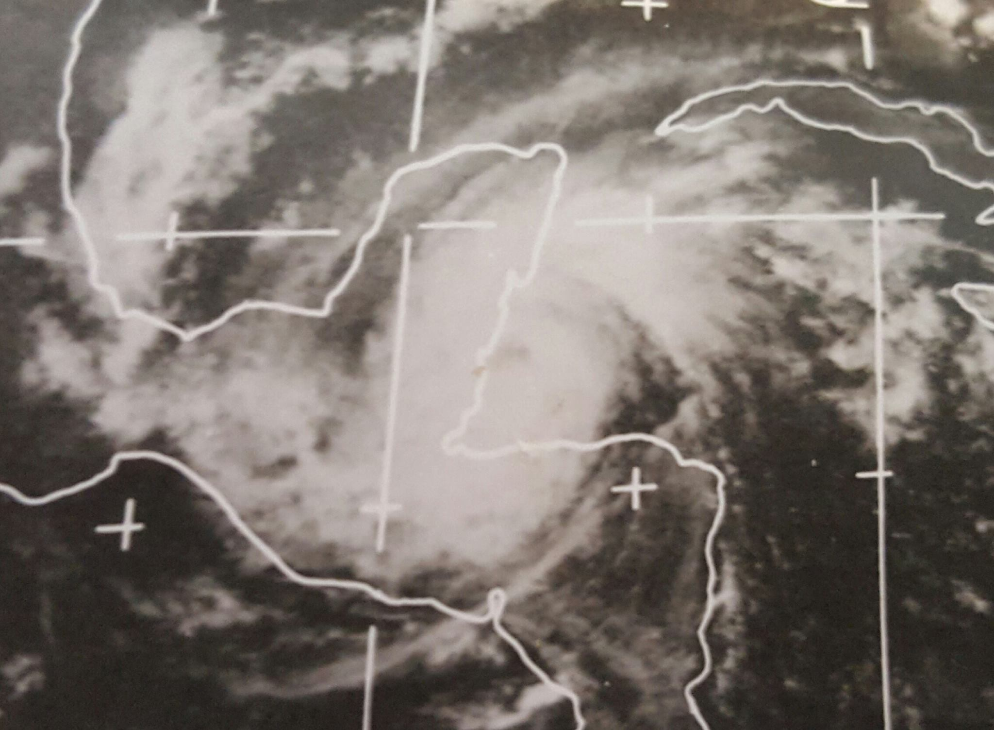 Satellite image of Tropical Storm Laura on November 20, 1971